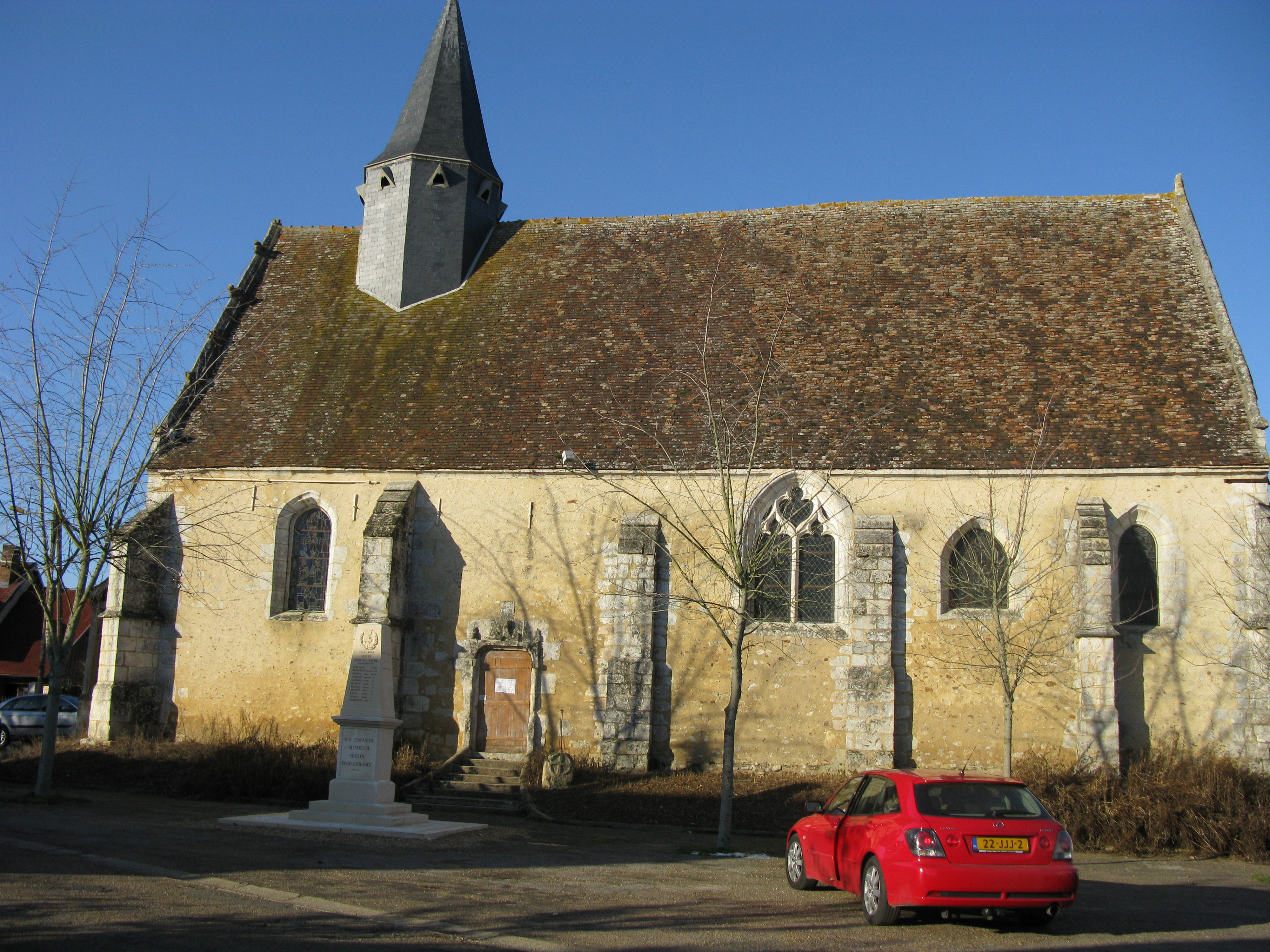 The village church of Autheuil in the French department of Eure-et-Loir. Notice the war monument. There are about five names on it from WWI, one name from WWII. (The red car is a 2003 vintage Lexus IS 200 Sportcross)